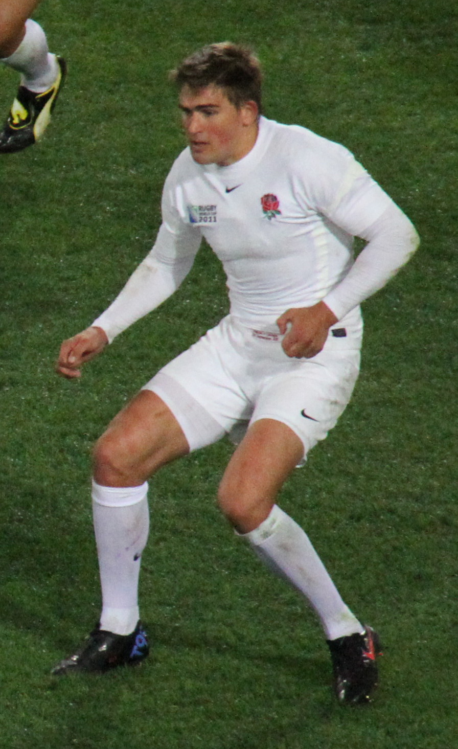 English rugby union player Toby Flood during 2011 Rugby World Cup match against Georgia.